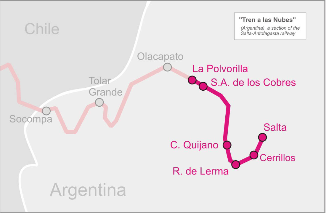 Map of the Tren a las Nubes section (Salta-La Polvorilla) as part of the Salta-Antofagasta railway that joins Argentina and Chile.